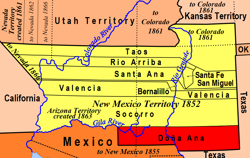 New Mexico Territory counties as they were redefined in 1852, together with surrounding territories and border changes to 1866. Doña Ana County is emphasized in red.